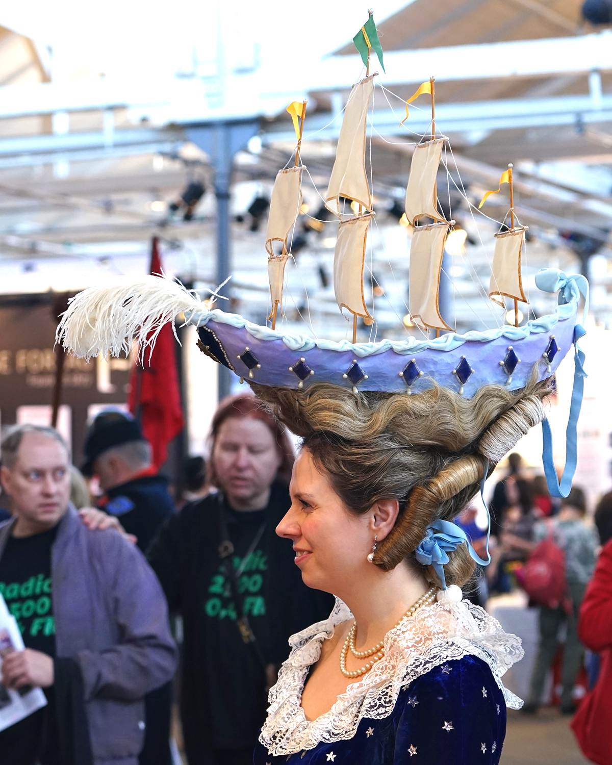 Historic hairstyle from 18th century a'la Marie Antoinette created by members of the Danish organisation "Academy of Historic Hairstyles" - at the event "Historic Days 2019", Copenhagen, Denmark - March 2019